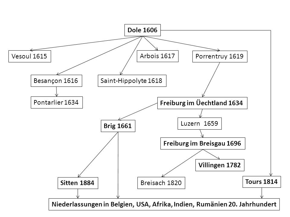 Tree of origin of houses of the Society of St. Ursulas of Anne de Xainctonge, corrected version